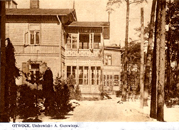 Gurewicz retreat before World War II, example of Świdermajer, a distinct Polish architectural style developed in late 19th and early 20th century in Masovia